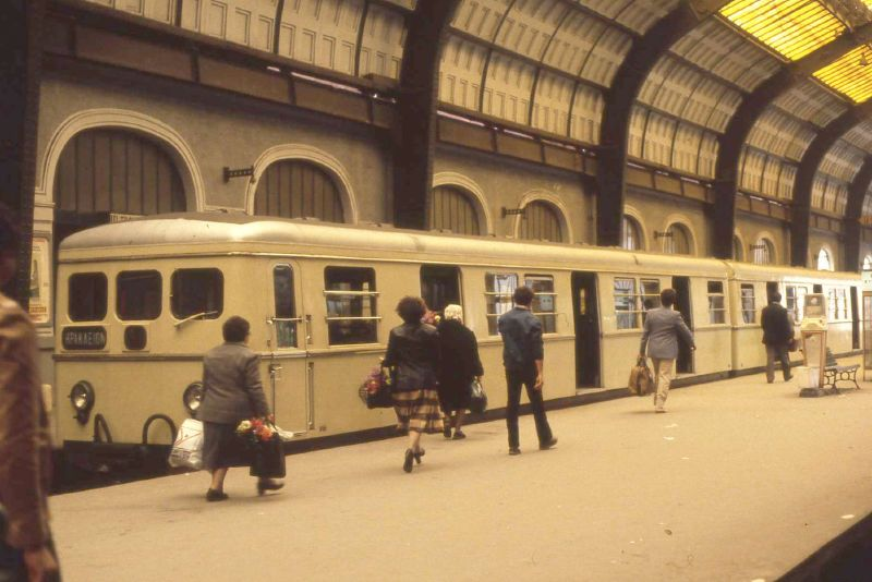 Piraeus is the terminus for ISAP (also advertised as Line 1 of Athens Metro network). The line was inaugarated in 1869. The train belongs to the 6th batch (1958). Piraeus is a major shipping and industrial centre to the south of Athens. and has a population of 175,697.